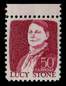 Post Office Department postage stamp of Lucy Stone issued in 1968